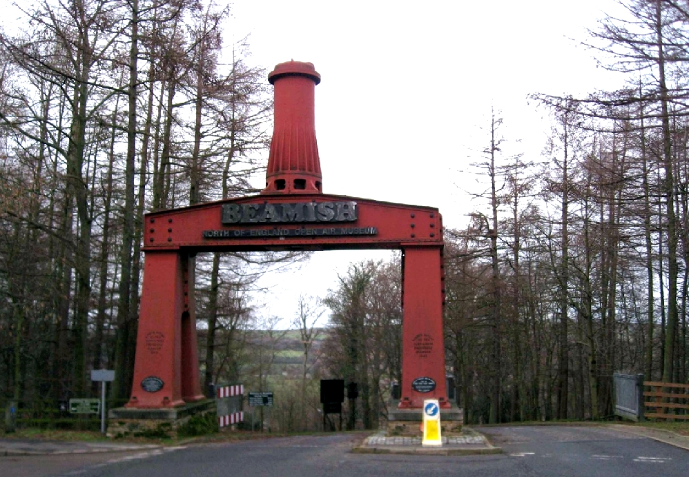 Beamish Museum, County Durham, England. The is the south (arrival) side of the entrance arch of the site.